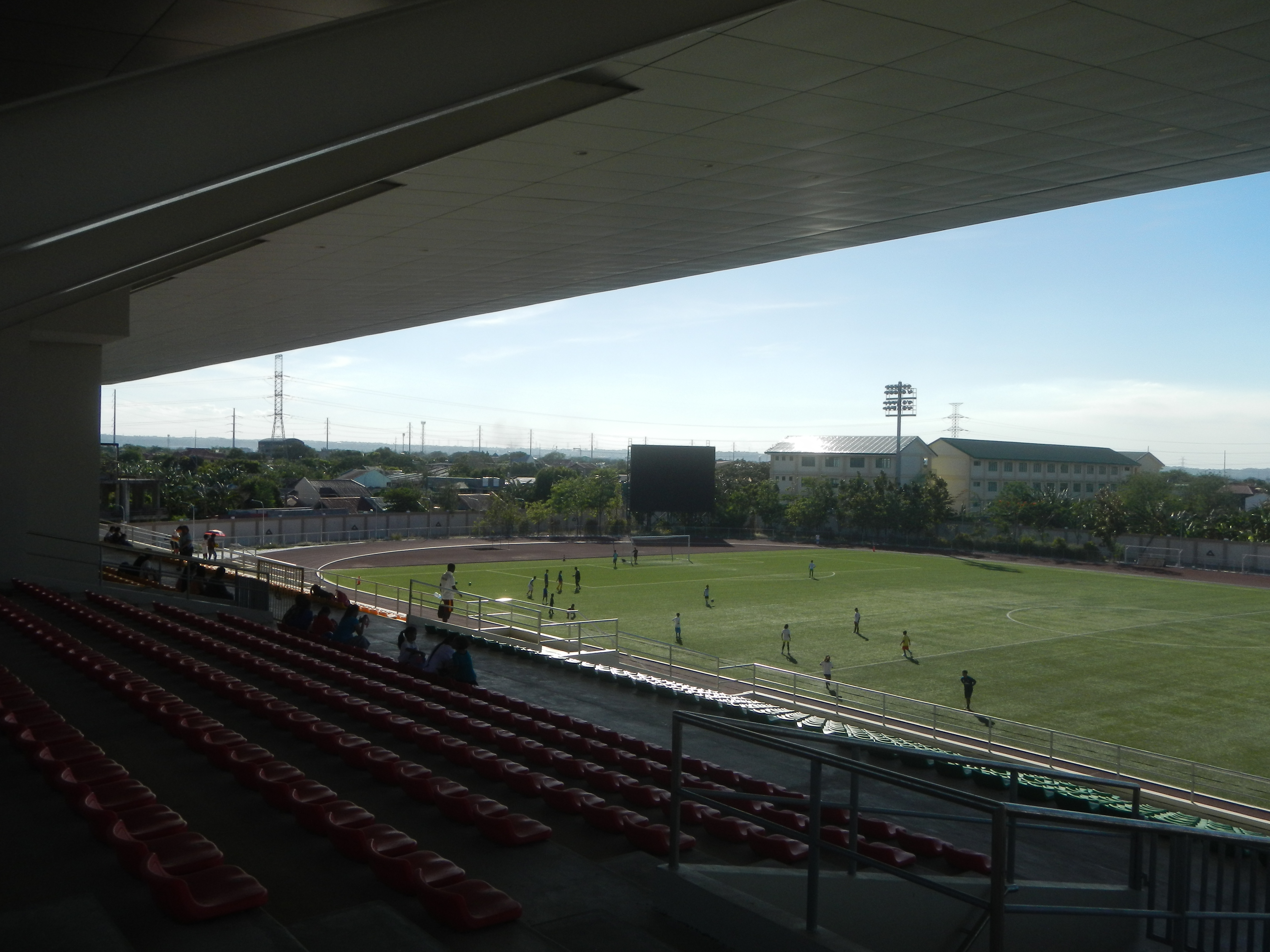 Biñan City Peoples Center Polytechnic University of the Philippines Biñan Biñan City Hall Complex Alonte Sports Arena Biñan Football Stadium Zapote, Biñan City in Barangay Zapote 14°18'57"N 121°4'48"E Platero 14°19'23"N 121°5'41"E San Antonio 14°19'58"N 121°5'23"E Santo Niño 14°19'22"N 121°5'0"E Soro-Soro 14°19'35"N 121°3'39"E Biñan City of Biñan, Laguna; Legislative district of Biñan (Note: Judge Florentino Floro, the owner, to repeat, Donor Florentino Floro of all these photos hereby donate gratuitously, freely and unconditionally all these photos to and for Wikimedia Commons, exclusively, for public use of the public domain, and again without any condition whatsoever).